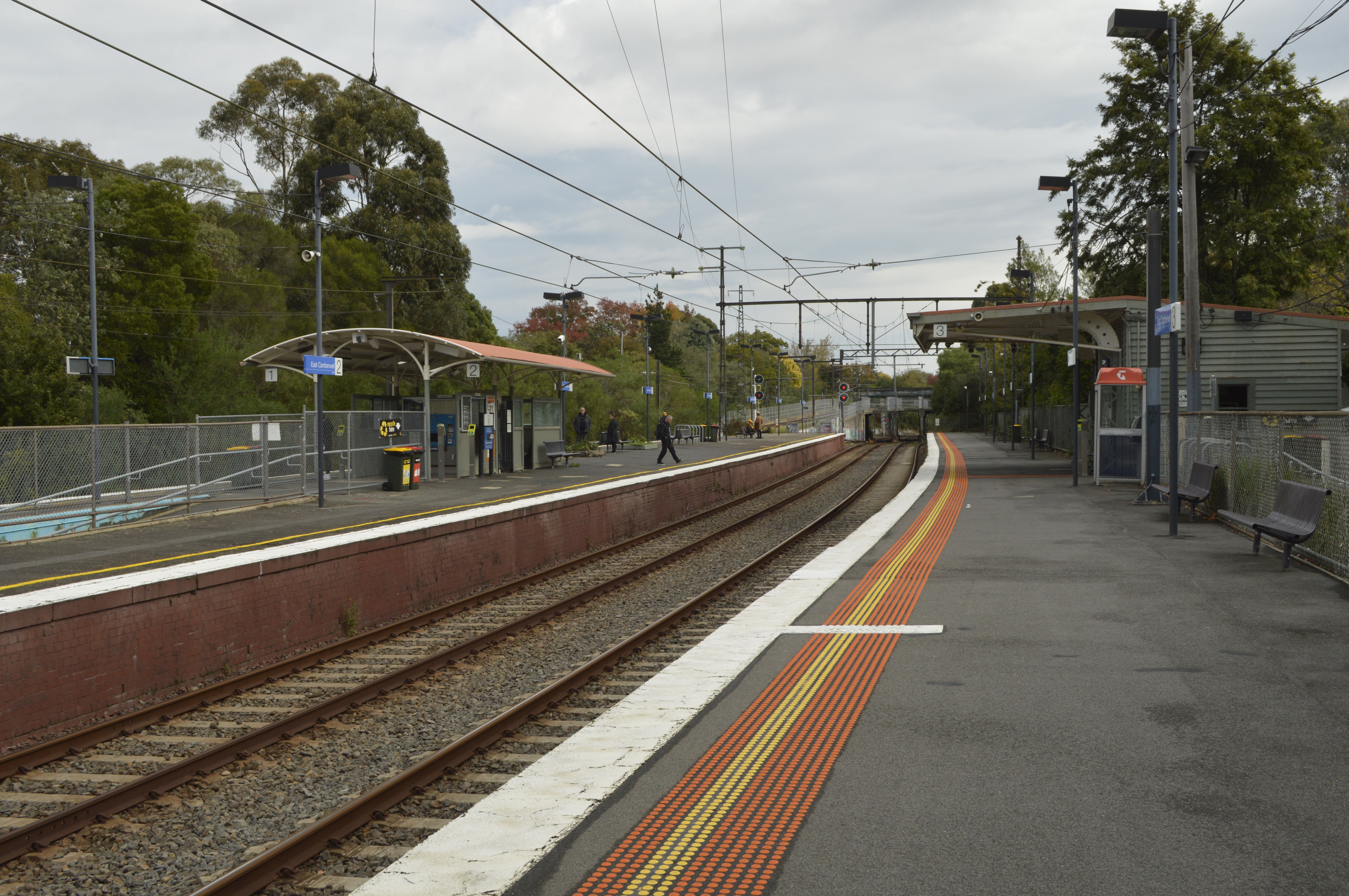 View from platform 3 looking west.